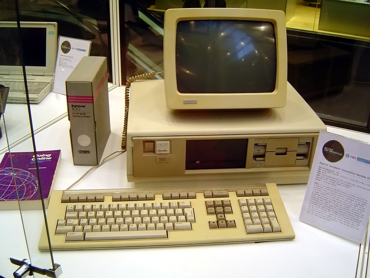 Old computer (DEC Rainbow)